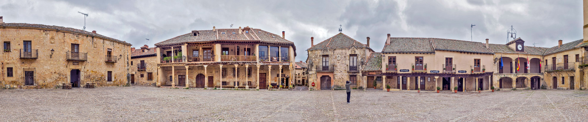 Plaza mayor porticada de Pedraza.